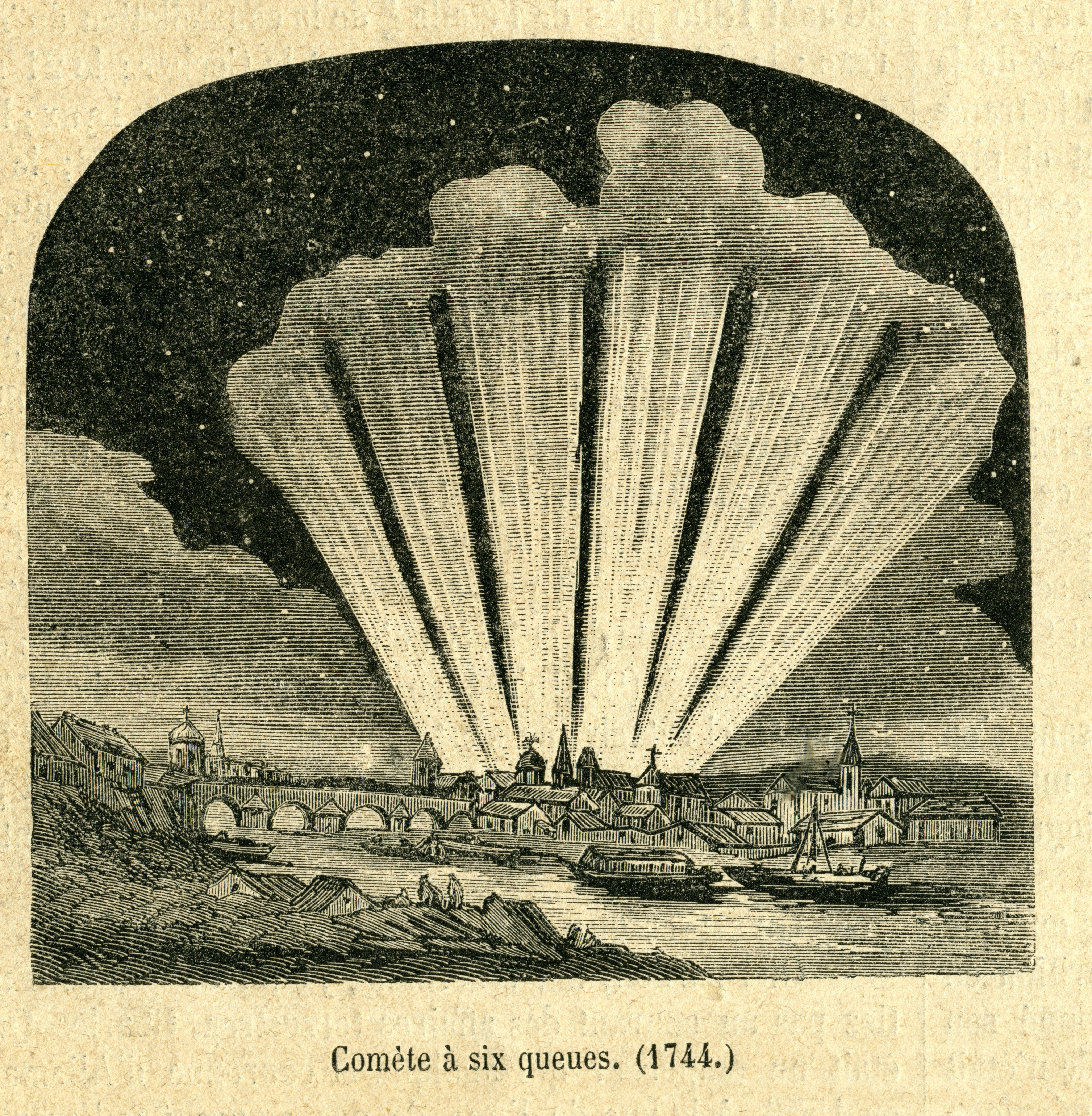 Engraving of the Great Comet of 1744, also known as Comet de Chéseaux or Comet Klinkenberg-Chéseaux